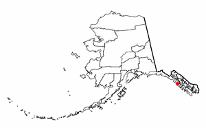 Adapted from Wikipedia's AK borough maps by Seth Ilys.